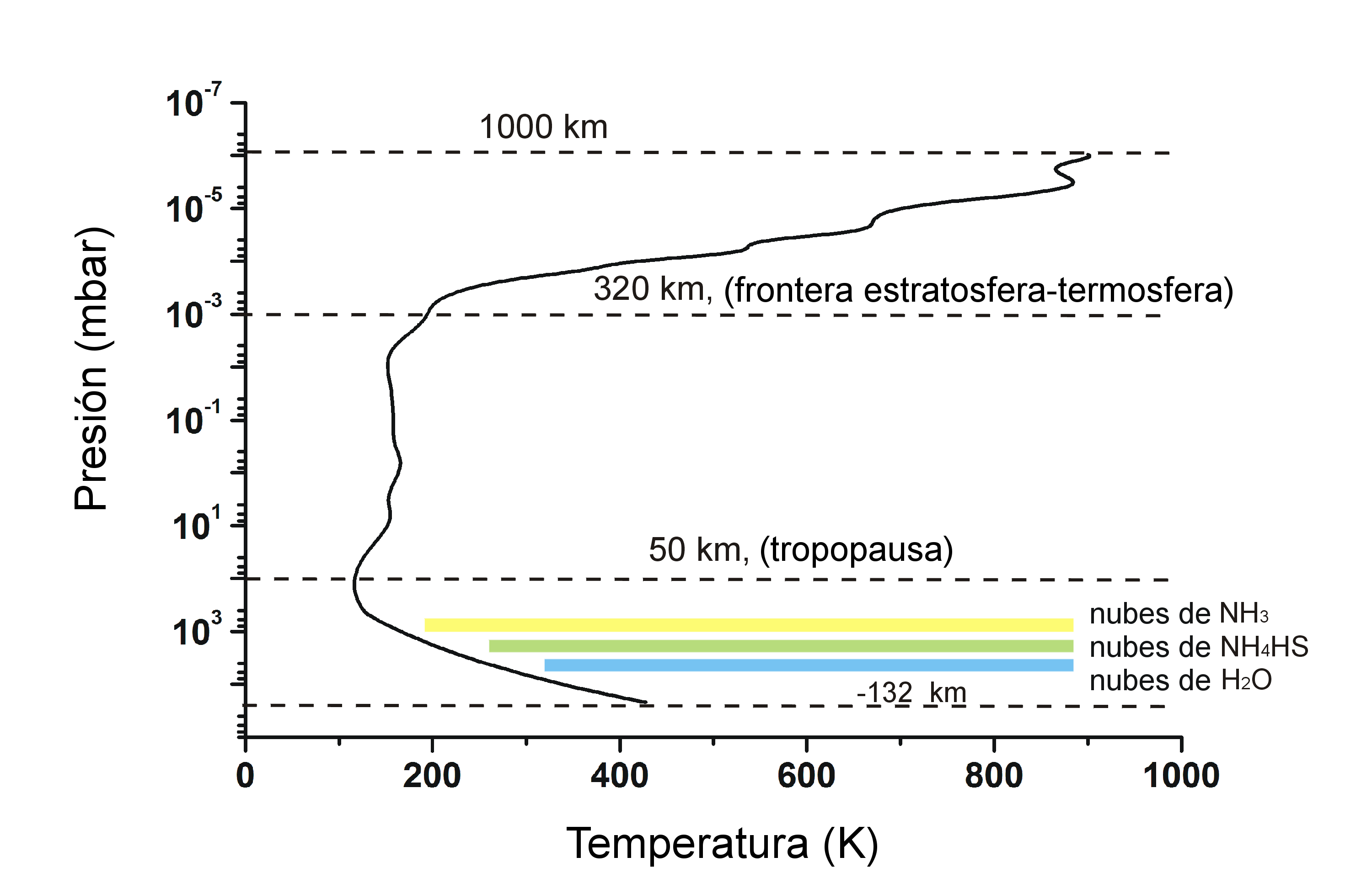 Structure of atmosphere of Jupiter, in Spanish; estrucutura de la atmosfera de Jupiter, en español